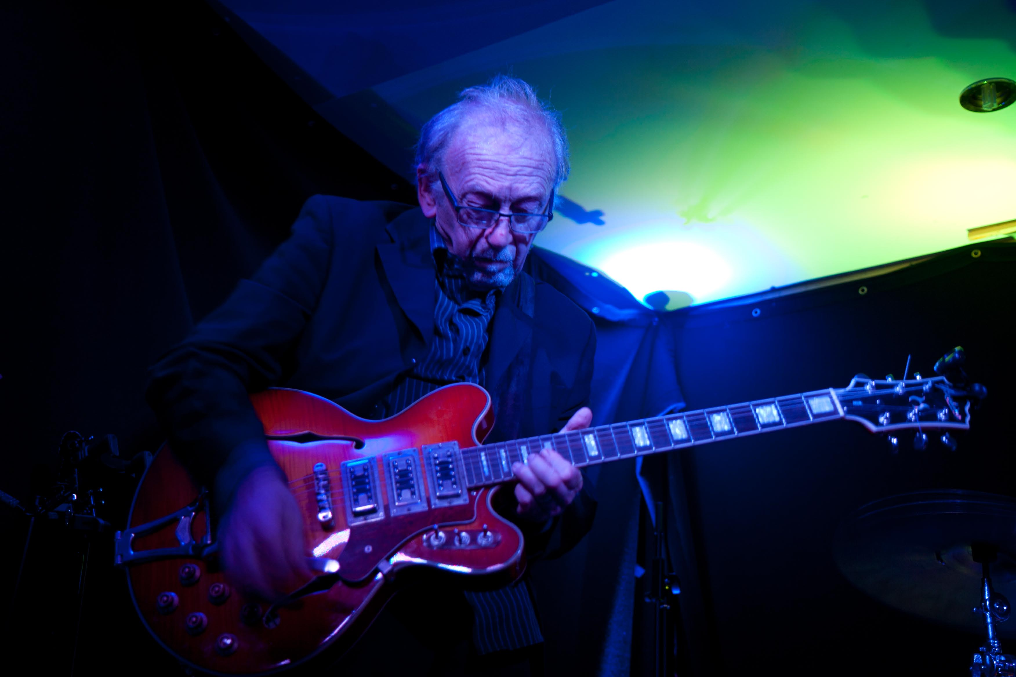 Pretty Things go Saltburn 10 The Pretty Things live at Spa Hotel, Saltburn-by-the-Sea, UK, on 27 September 2013.